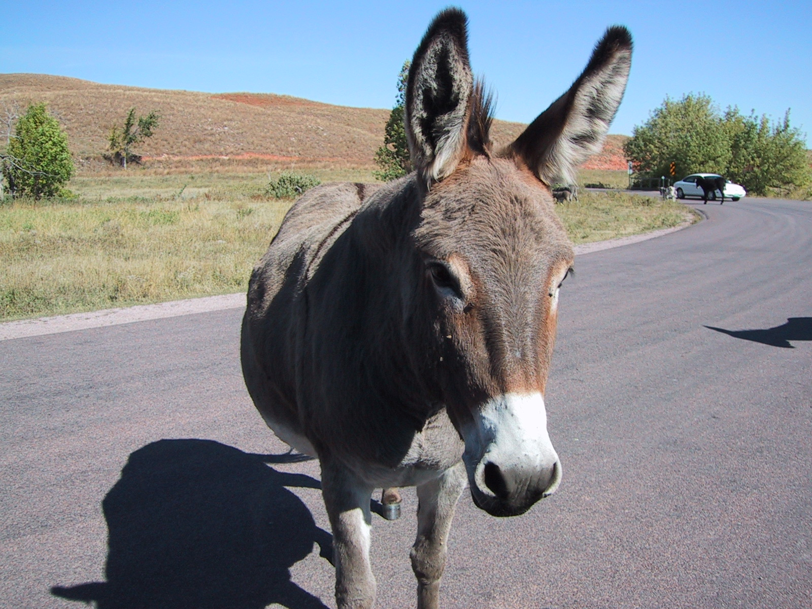 Donkey, Custer State Park, Black Hills, South Dakota, USA.